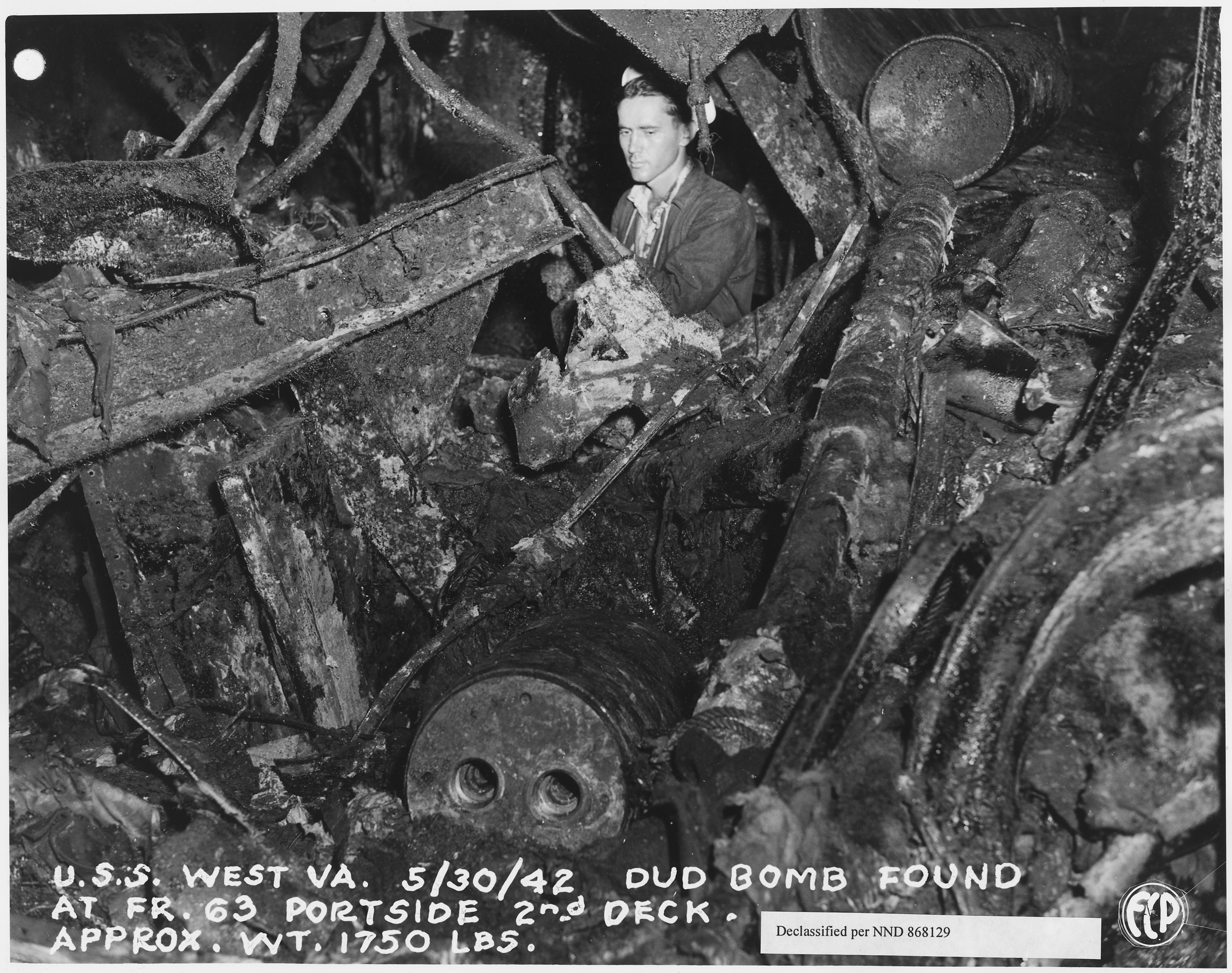 Scope and content: This is one of a collection of photographs of salvage operations at Pearl Harbor Naval Shipyard taken by the shipyard during the period following the Japanese attack on Pearl Harbor which initiated US participation in World War II. The photographs are found in a number of files in several shipyard records series.